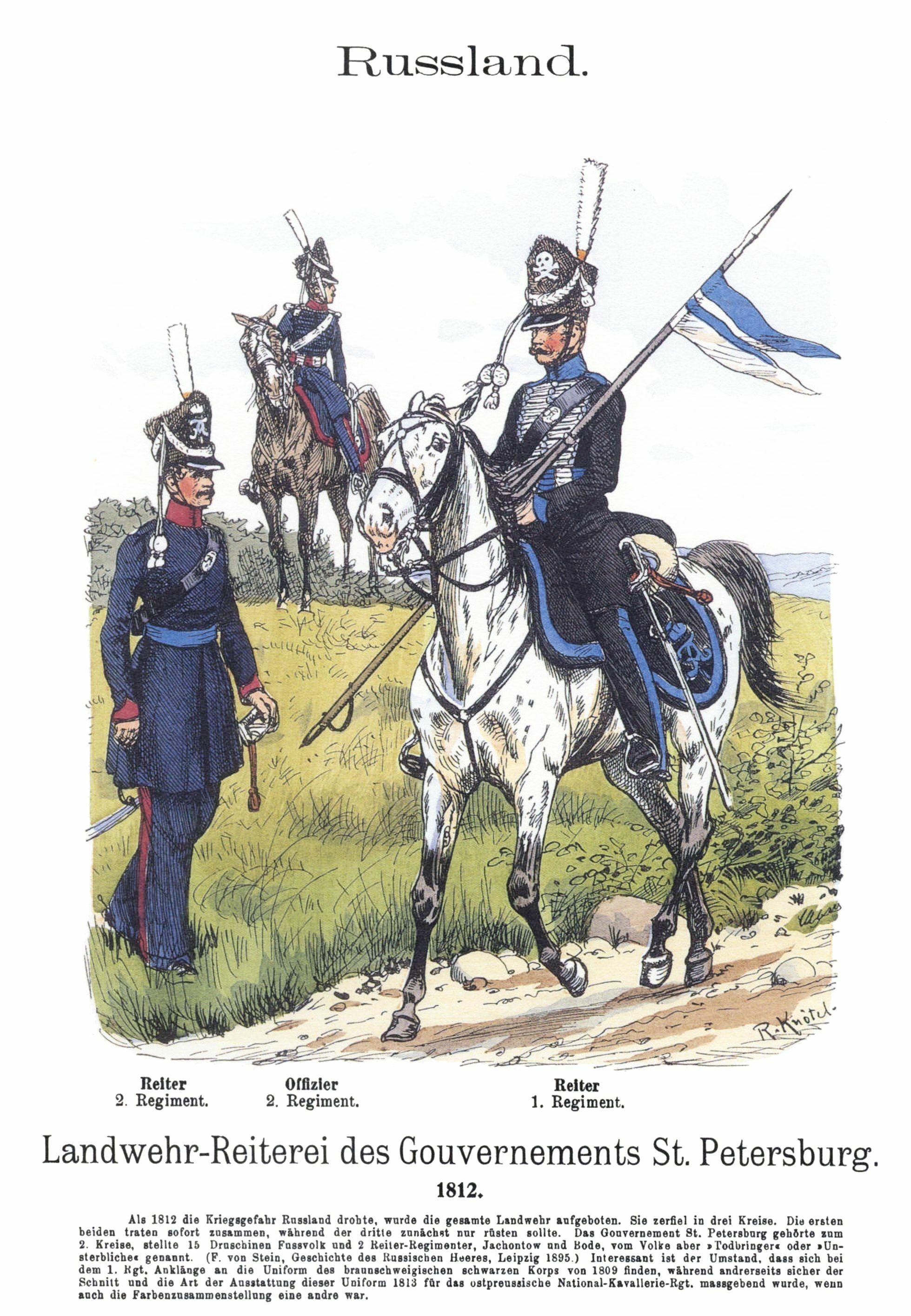 Richard Knotel Image 17 _07 showing 1. St. Petersburger freiwiligen Kosakenregiment